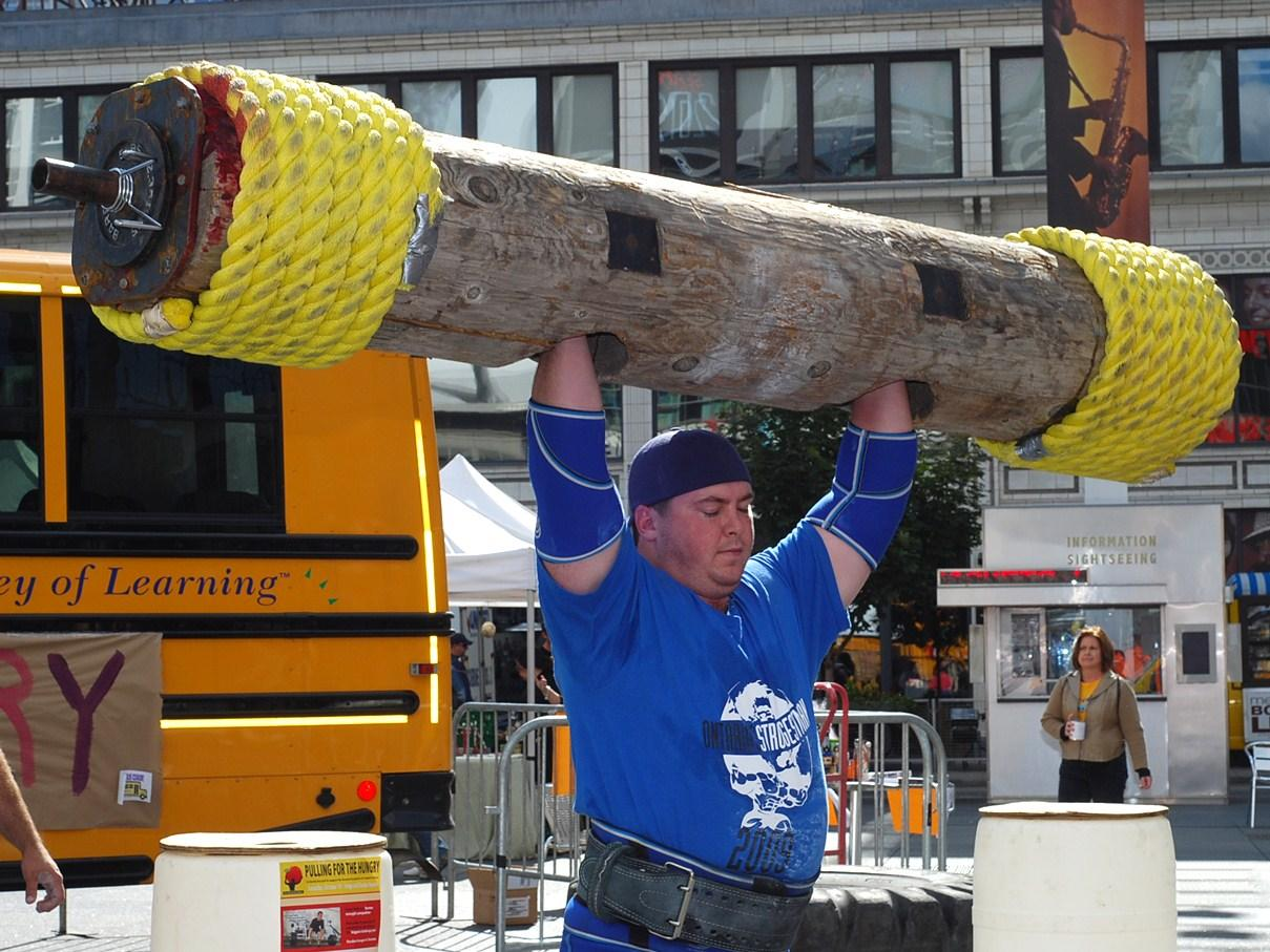 Strongmen event: the wooden Log Lift.